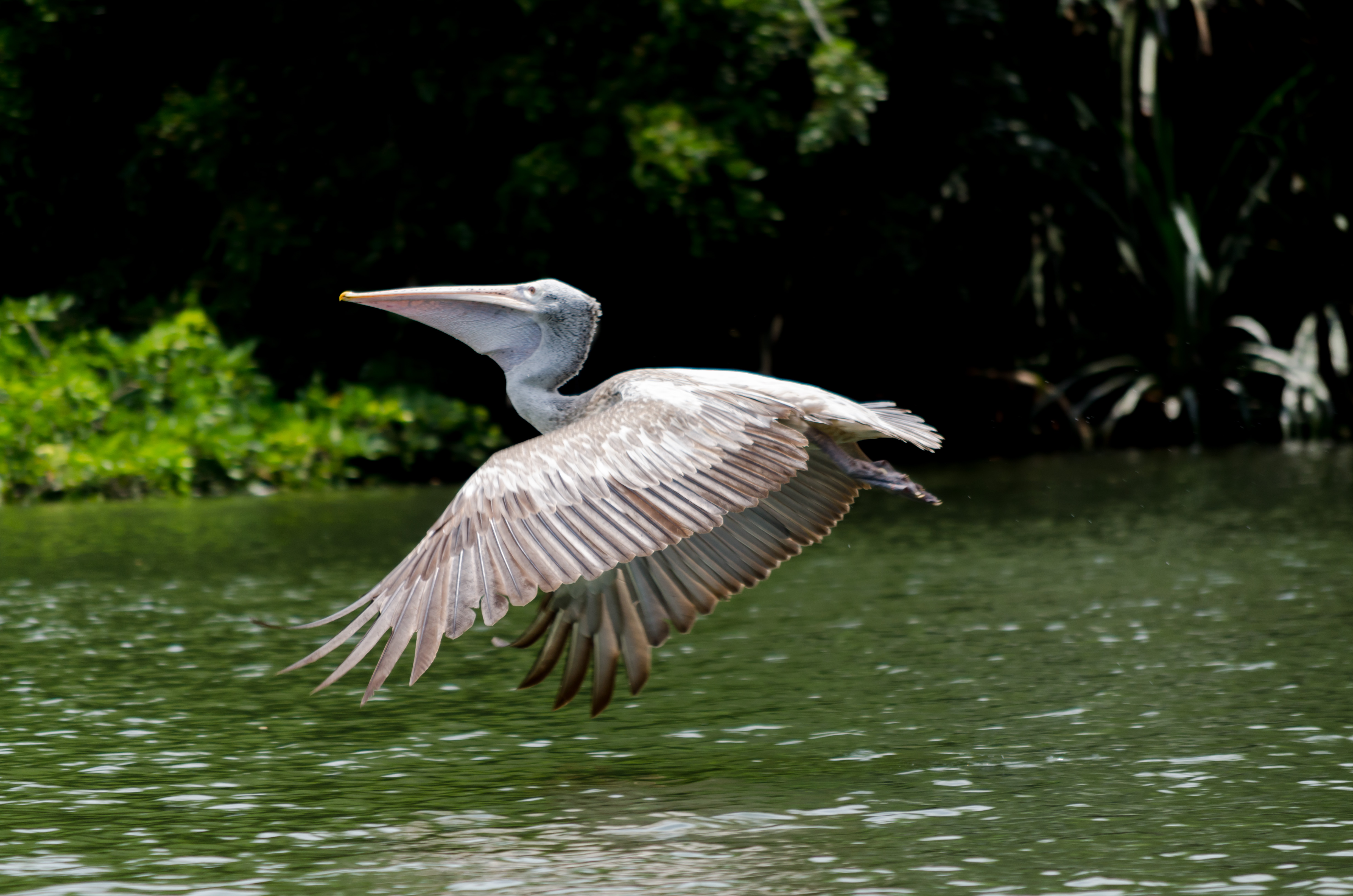 Took this shot at Ranganathitu Bird sanctuary